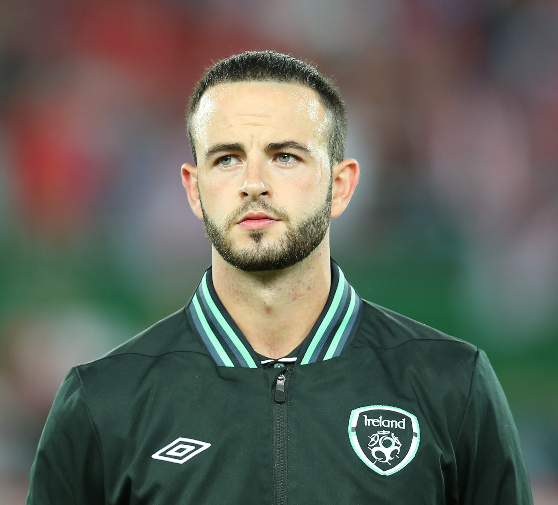 2014 FIFA World Cup qualification (UEFA), Group C: Republic of Ireland national football team at 10. September 2013 before the match against the Austria national football team (0:1) in the Ernst-Happel-Stadion in Vienna. Here: Marc Wilson, irish defender The making of this work was supported by Wikimedia Austria. For other files made with the support of Wikimedia Austria, please see the category Supported by Wikimedia Österreich.